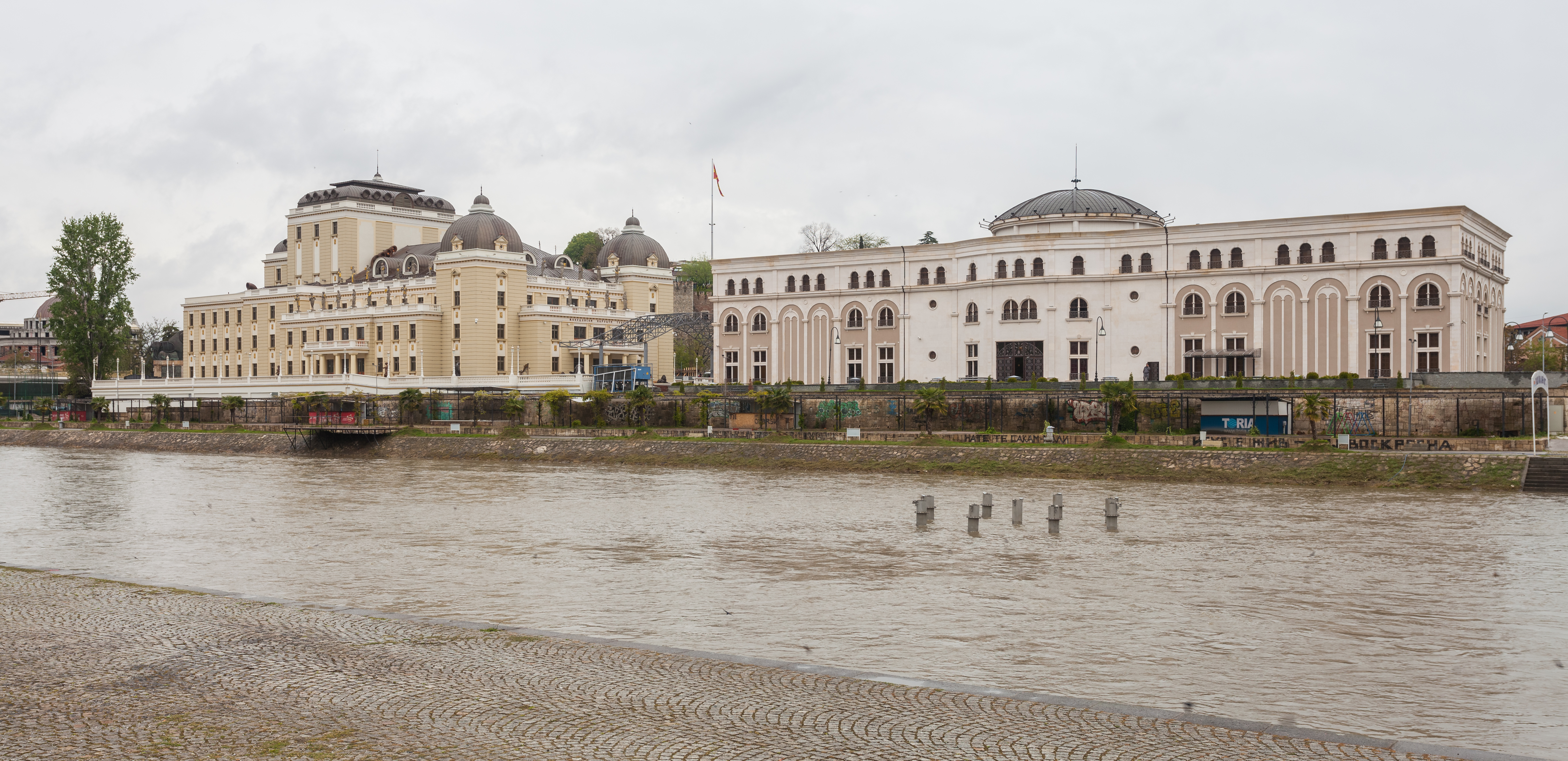 National Theatre and Museum of the Macedonian Struggle, Skopje, Republic of Macedonia